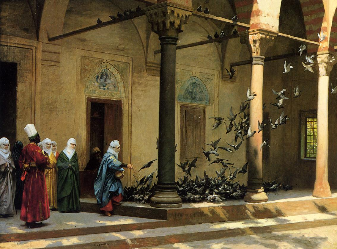 Harem Women Feeding Pigeons in a Courtyard